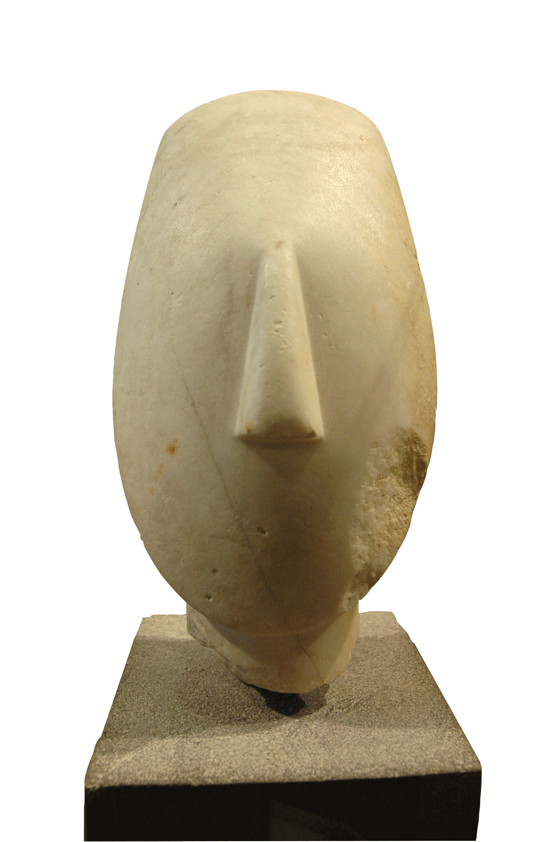 Head from the figure of a woman, Spedos type, Early Cycladic II (2700 BC–2300 BC), Keros culture.